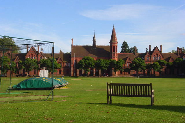 Reading School Boys' grammar school in Erleigh Road. Victorian architecture by Alfred Waterhouse.